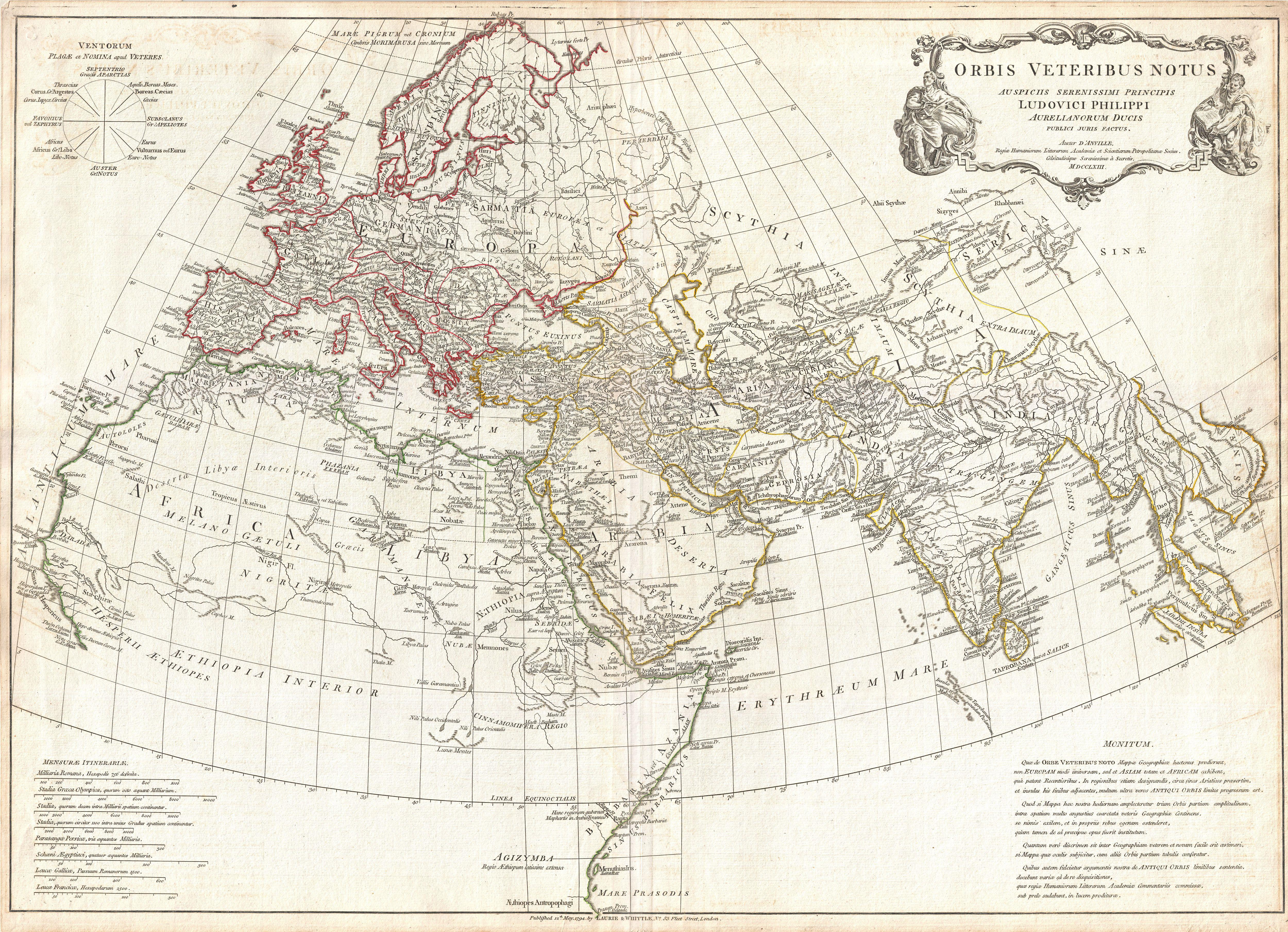 A large and dramatic composite 1794 map of the world as it was known to the ancients, by J. B. B. D'Anville. Covers all of Europe, Asia Minor, Arabia and India, much of Northern Africa, and parts of Southeast Asia. D'Anville compiled this map from various sources including Ptolemy, Herodotus, Thucydides, and others. In Africa, the author notes various cities from Ptolemy's Geographica , including Rapta, Axum, Garama, and others. Includes the Mountains of the Moon, Lakes of the Nile, and other conjectural destinations. Far in the south a note reads, Aethiopes Anthropophagi, which essentially translates to African Cannibals. In the Far East a number of classical locals are noted, including the island of Taprobana (Celon) and the empires of Southeast Asia. Details mountains, rivers, cities, roadways, and lakes with political divisions highlighted in outline color. Title cartouche appears in a baroque frame in the upper left quadrant. Cartouche is flanked on either side by malignant appearing figure with a telescope and a studious scholar reading a book. Includes eight distance scales, bottom left, referencing various measurement systems common in antiquity. Text in Latin and English. Drawn by J. B. B. D'Anville in 1762 and published in 1794 by Laurie and Whittle, London.